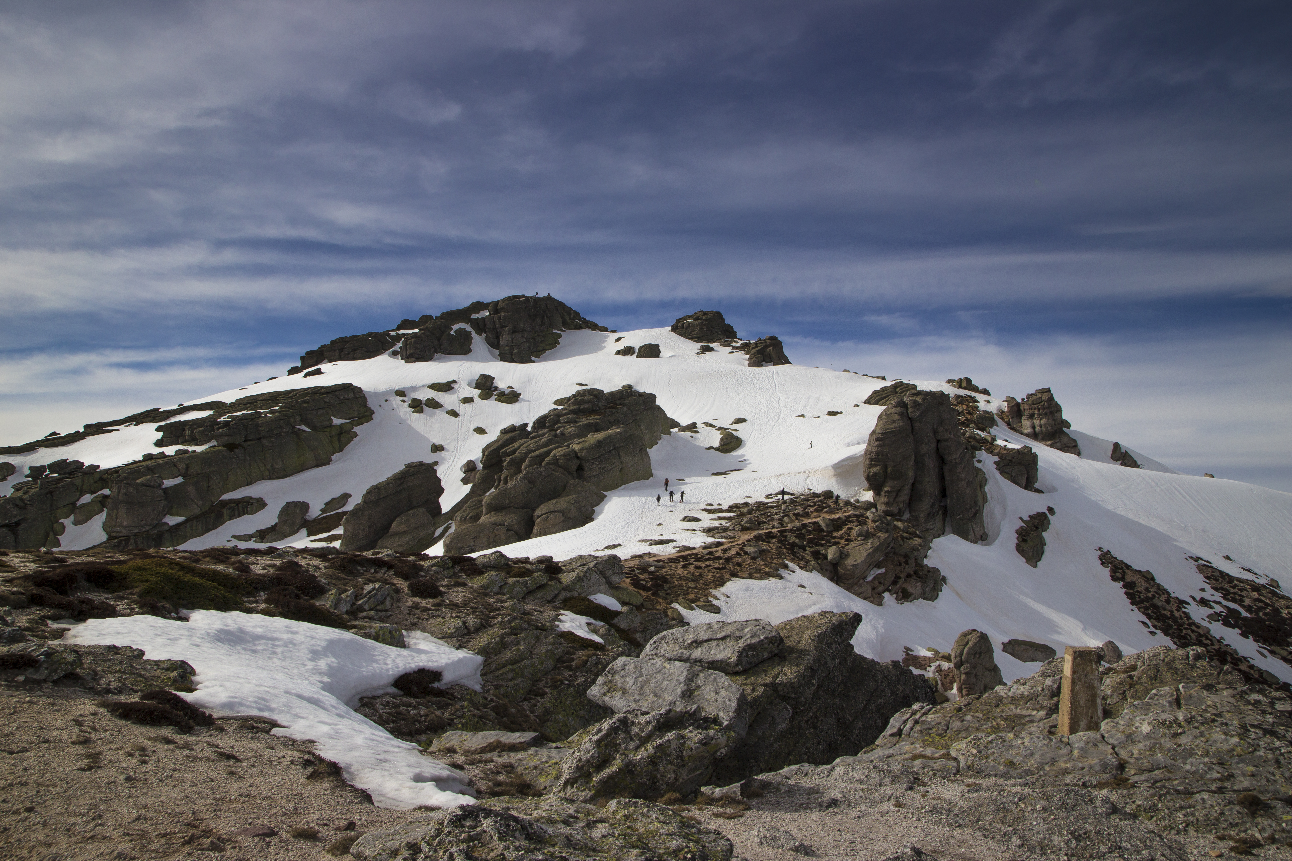 Pico Urbión This is a photography of a Special Area of Conservation in Spain with the ID: ES4170116. Natura2000 entry, EEA entry